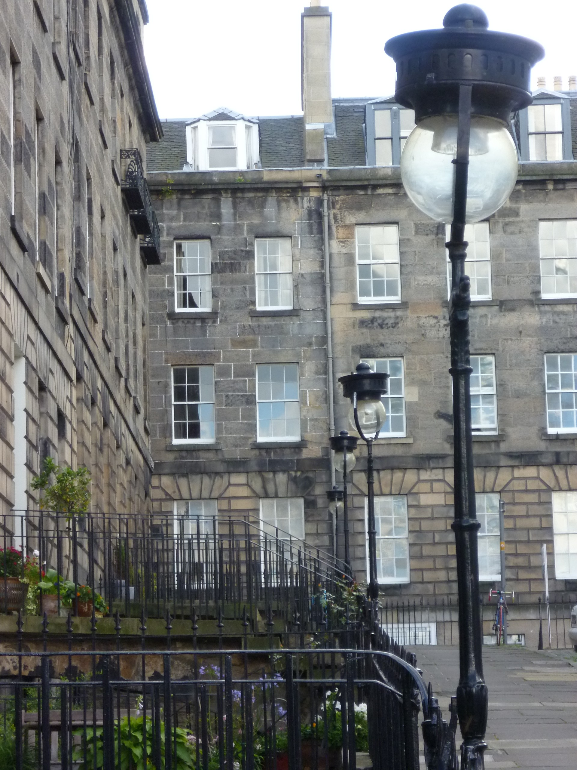 Oil, later gas lamps, Edinburgh New Town. "...there are no stars so lovely as Edinburgh street-lamps" - R. L. Stevenson